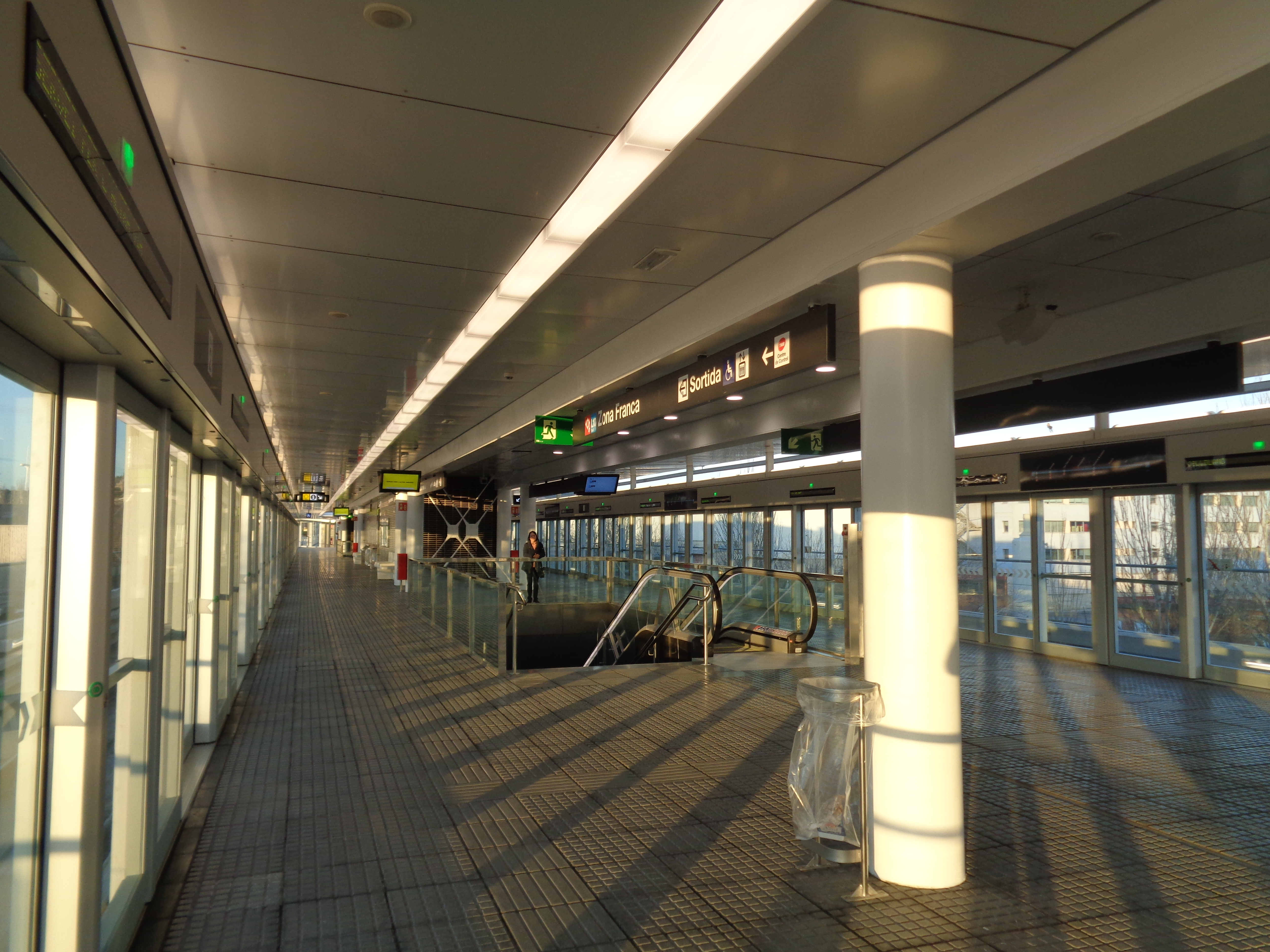 Zona Franca station of the Barcelona Metro line 10.